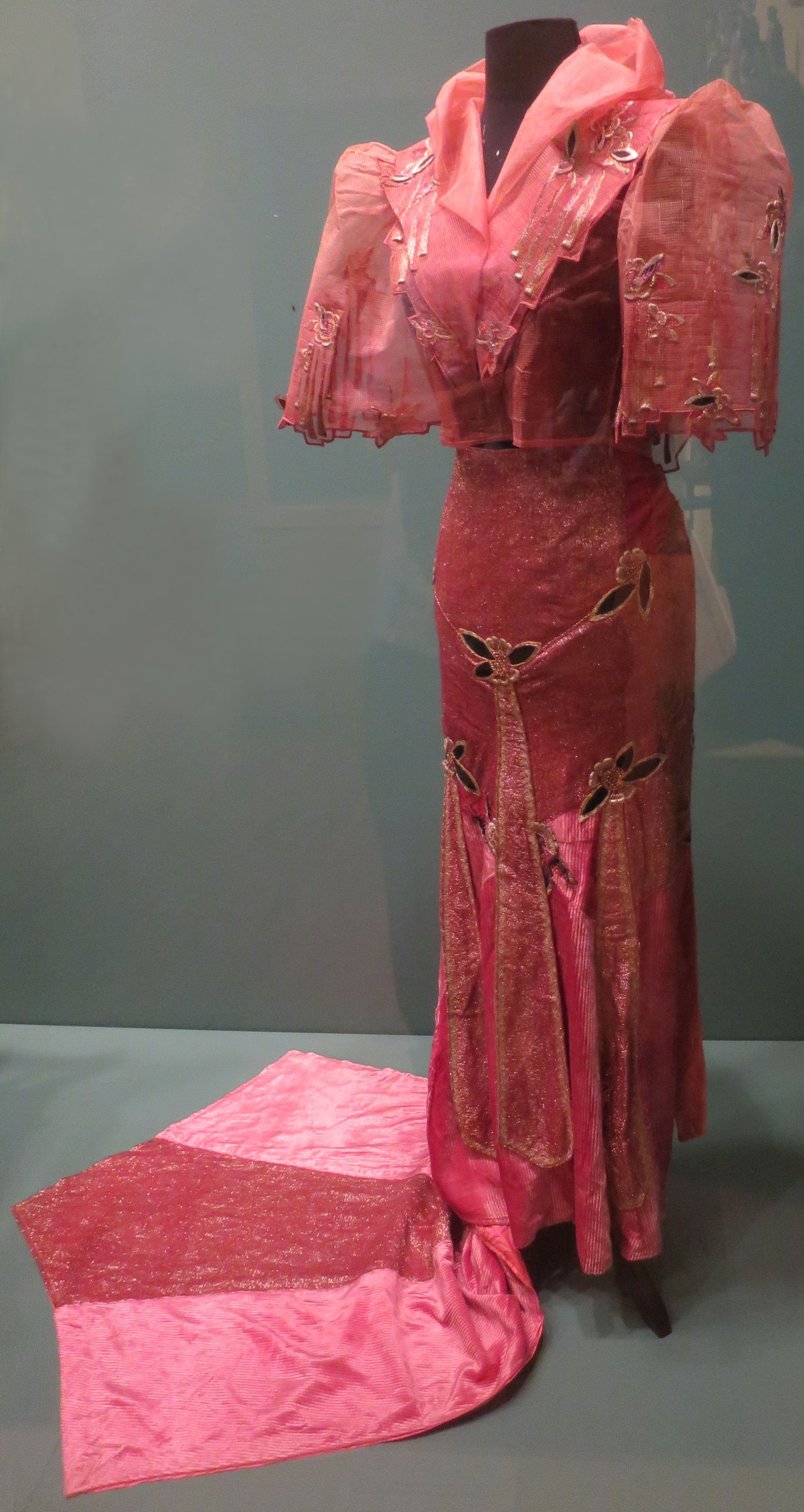 Terno (woman's gown) from the Philippines, 1920s, abaca, silk, metalic threads and glass beads, cut pile (corduroy), leno weave, embroidery, Honolulu Museum of Art accession 5752.1